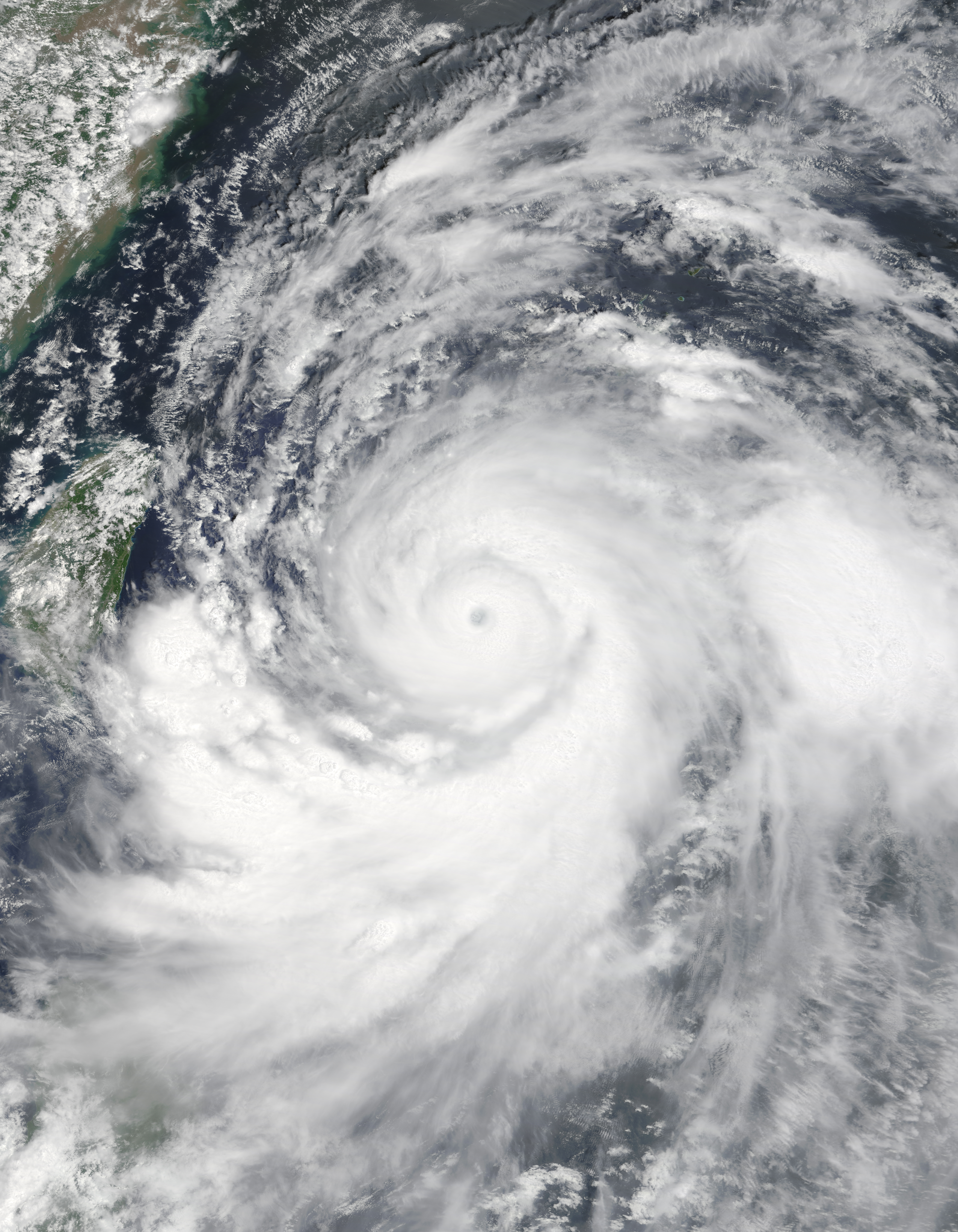 Super Typhoon Lekima (11W) approaching Taiwan